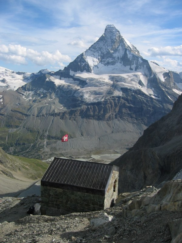 Arbenbiwak